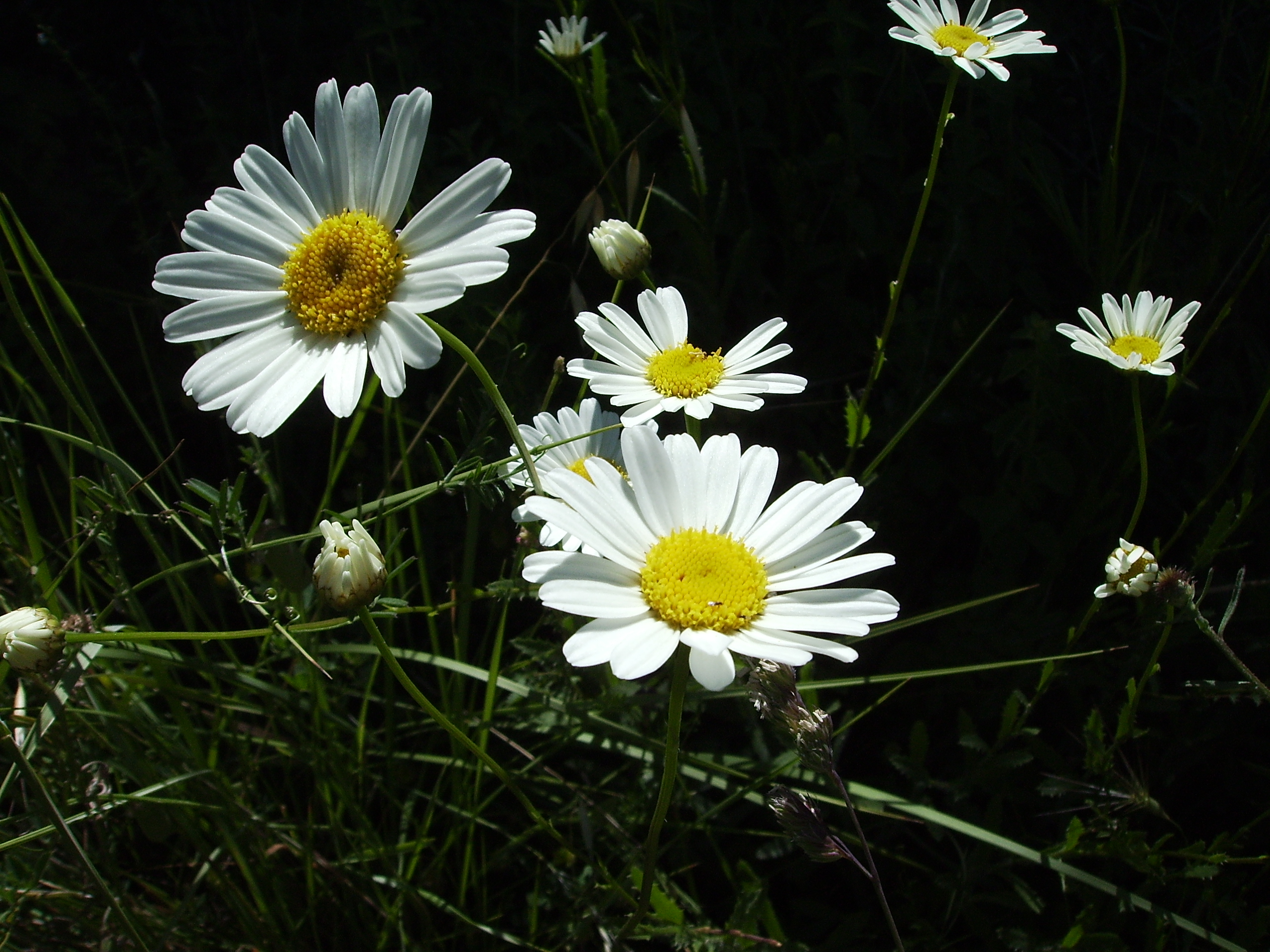 Leucanthemum vulgare in the wild, Castelltallat Catalonia